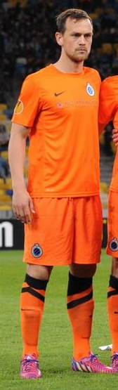 Tom De Sutter